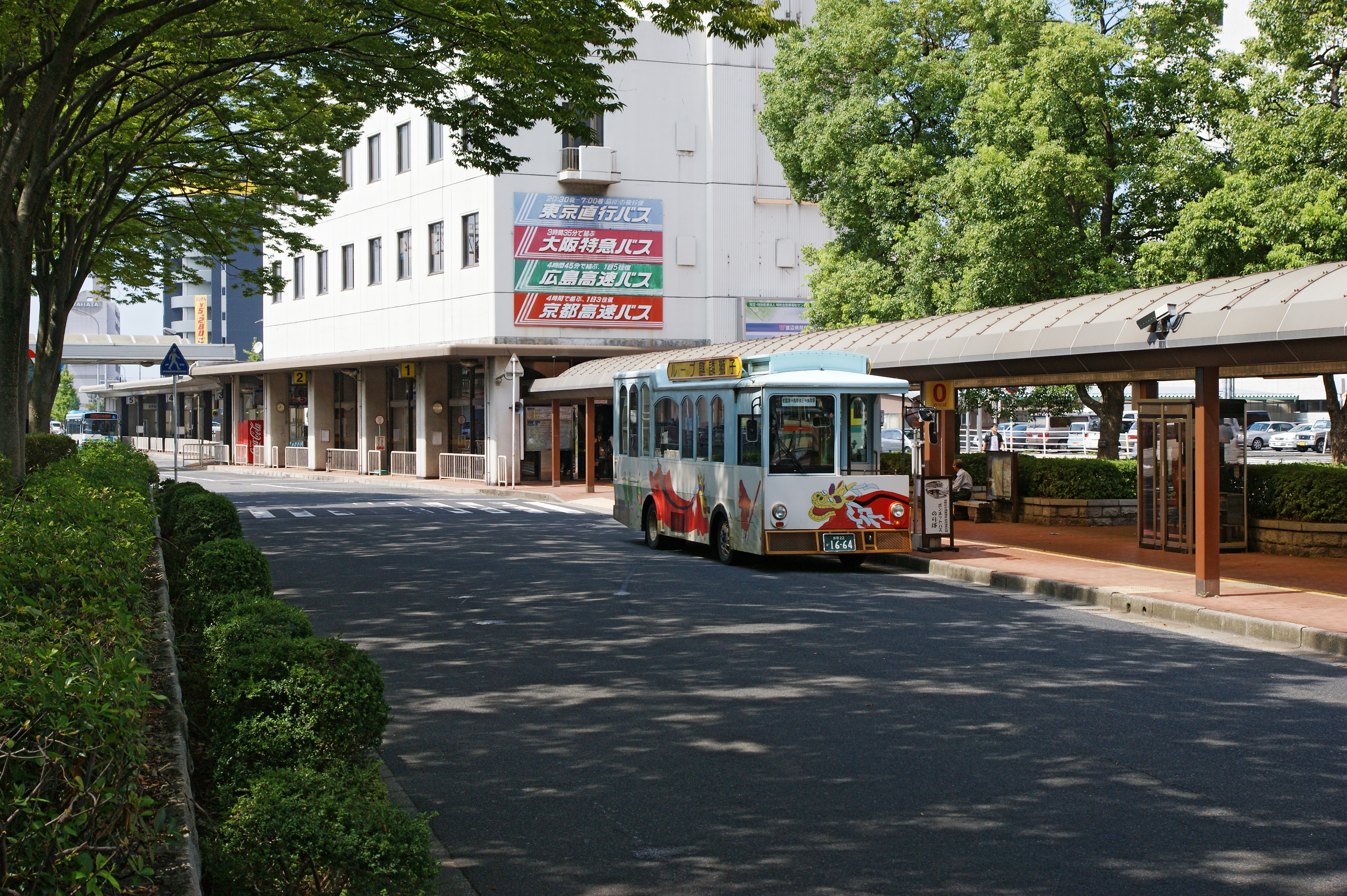 Tottori Station Bus Terminal in Tottori, Tottori prefecture, Japan